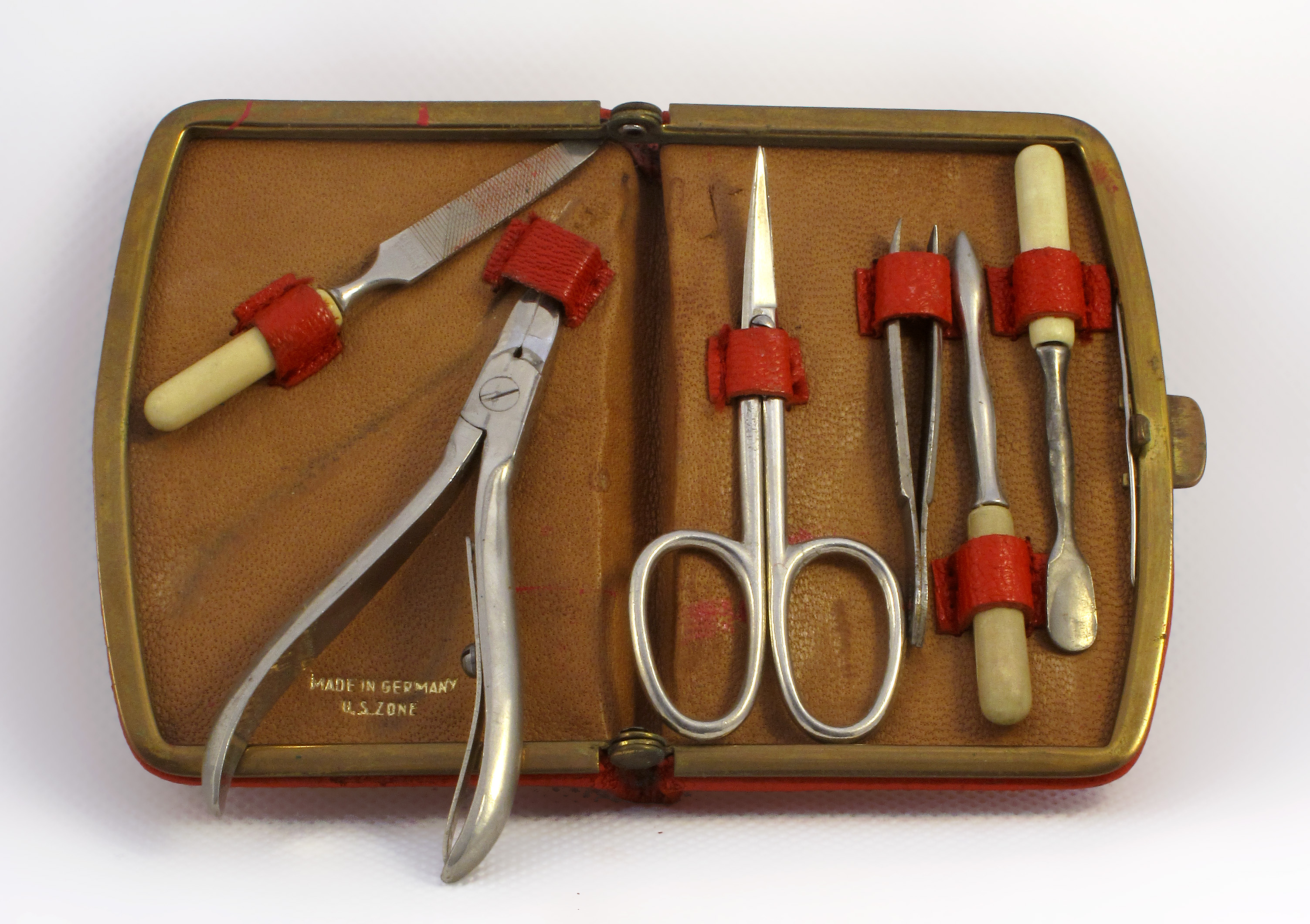 Manicure kit made of red imitation leather, marked "Made in Germany U.S. Zone"